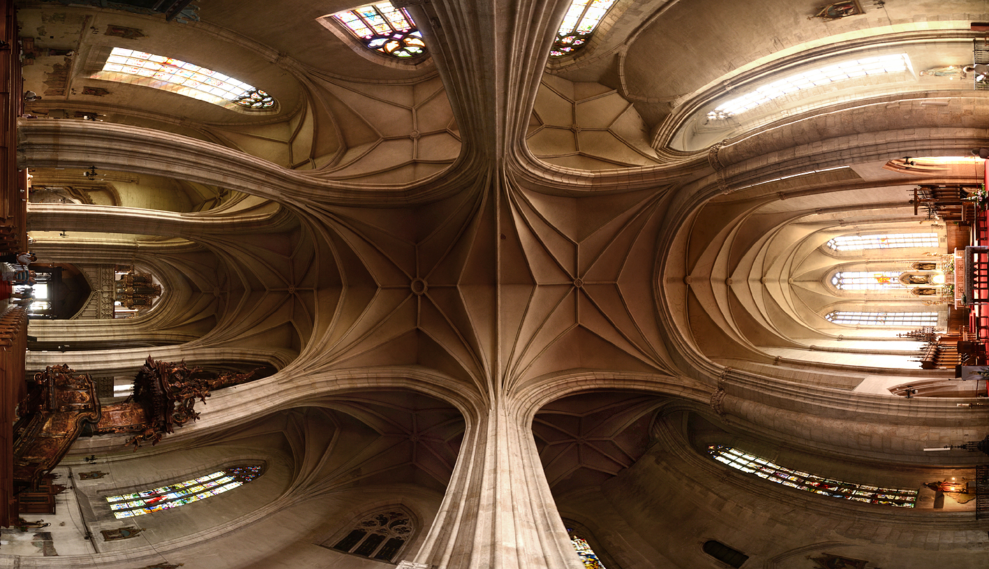 Panoramic image of the vaults from the St. Michael's Church, Cluj-Napoca